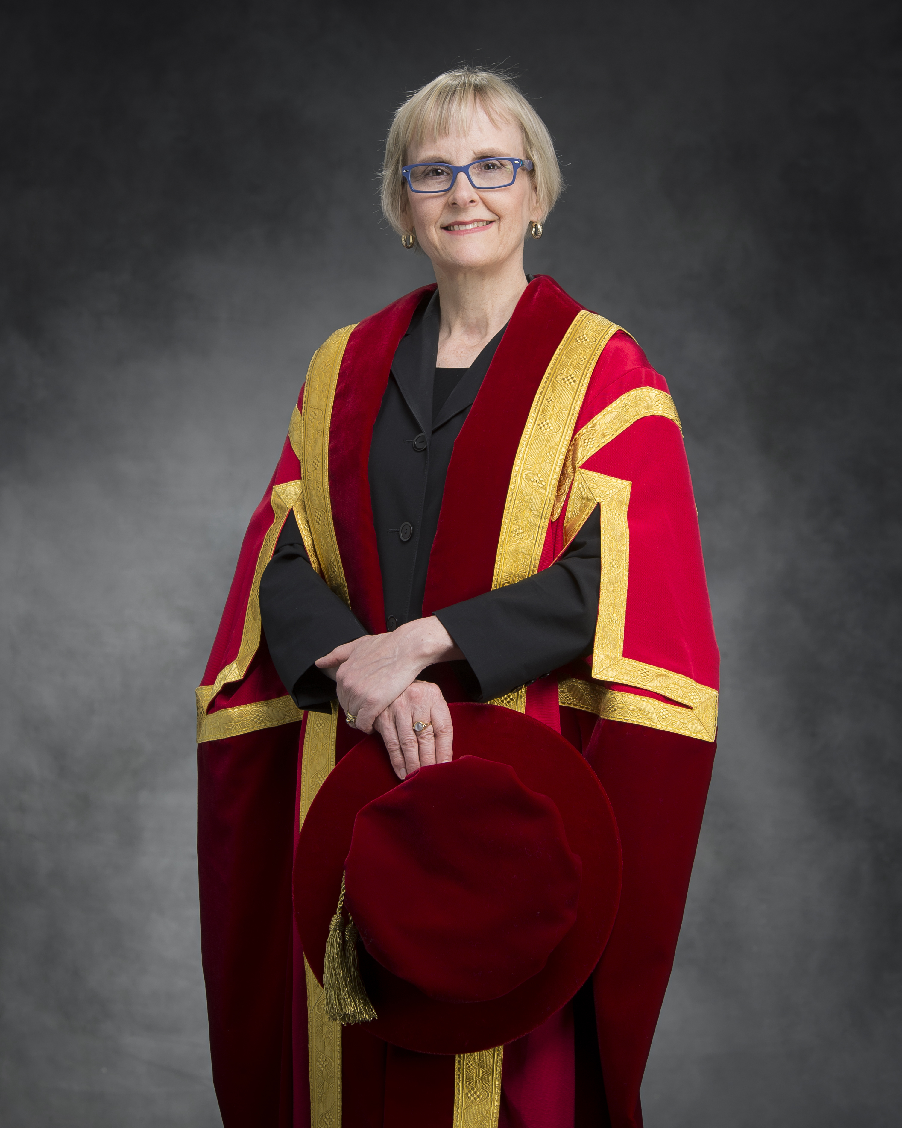 Anne Giardini in 2014